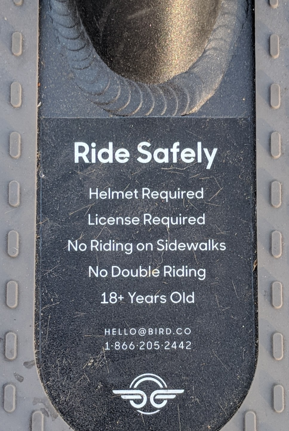 An instructional panel on the deck of a Bird electric kick scooter.